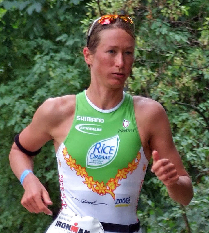 Imke Schiersch, Ironman Germany, Frankfurt 2008